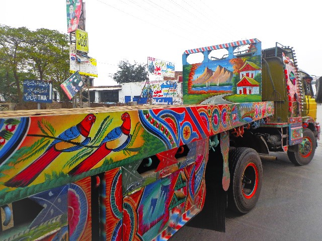 Truck Art